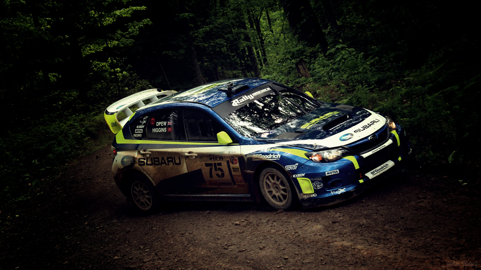 David Higgins and co-driver Craig Drew in their 2012 Subaru Impreza WRX STi at the 2012 Susquehannock Trail Performance Rally in Pennsylvania. Round 4 of the 2012 Rally America National Championship.